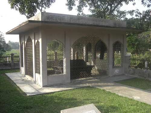 "Tomb of the independent Sultan Ghiyasuddin Adam Shah (the rebel son of the Sultan Sikandar Shah of Bengal) was built around 1410 CE at Mograpara in the historic city of Panam Nagar. He died in 1402 CE and was buried here. It seems that the grave of Kazi Sirajuddin, Chief Justice of the Sultan on the east."